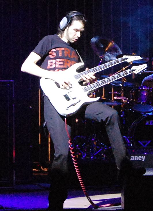 g3 live, Massey Hall